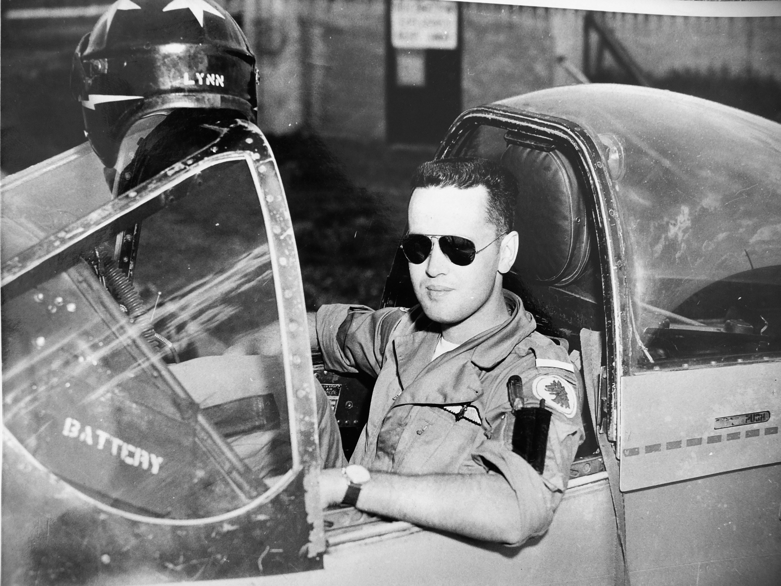 Lynn Garrison, youngest winged pilot in RCAF sitting in 403 Squadron, RCAF Mustang fighter 9221, RCAF Station Calgary, Calgary, Alberta, CANADA. August 17, 1956